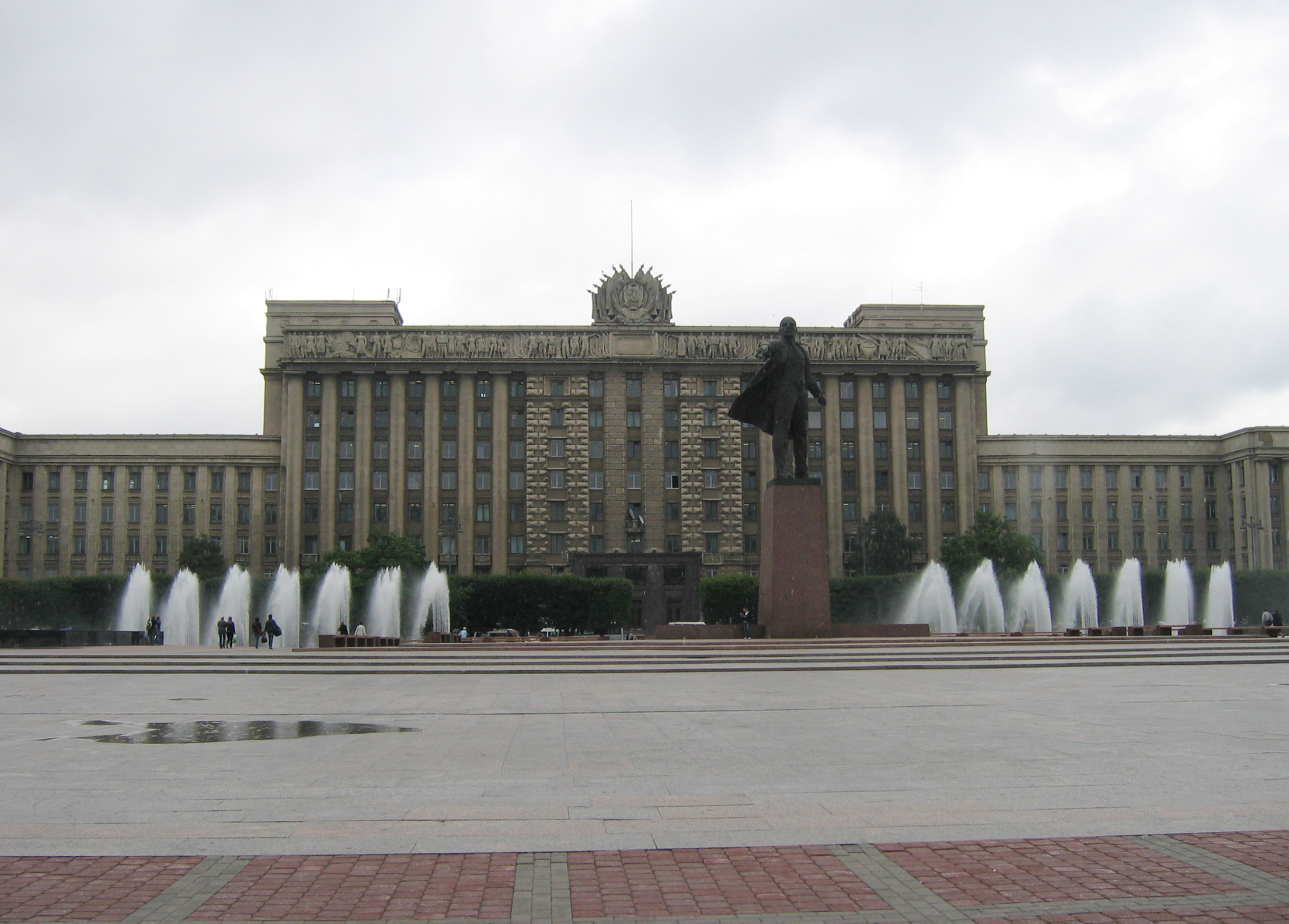 House of Soviets, Monument to Lenin